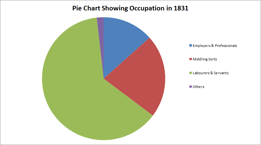 Pie Chart Showing the Occupational Spread in 1831